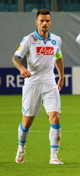 Christian Maggio